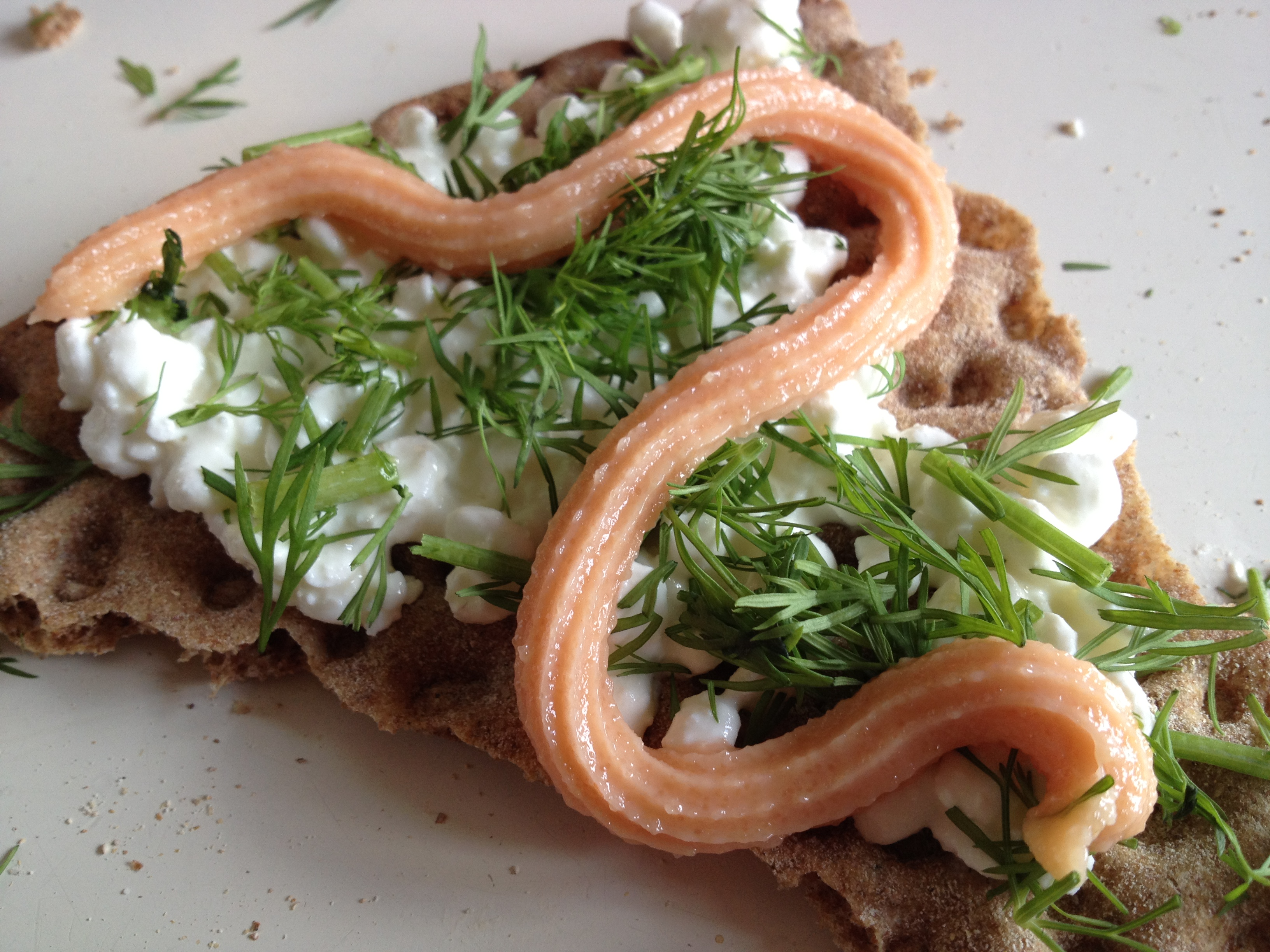 Kalles kaviar